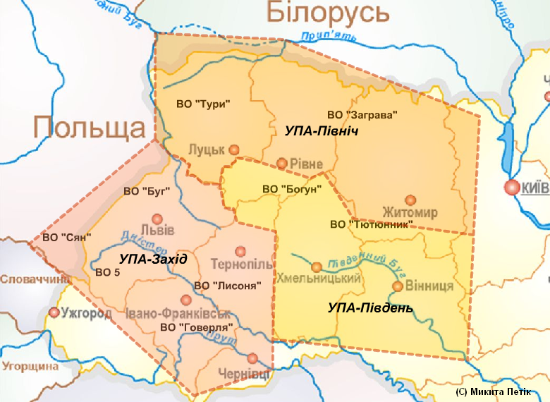 Territorial structure of UPA